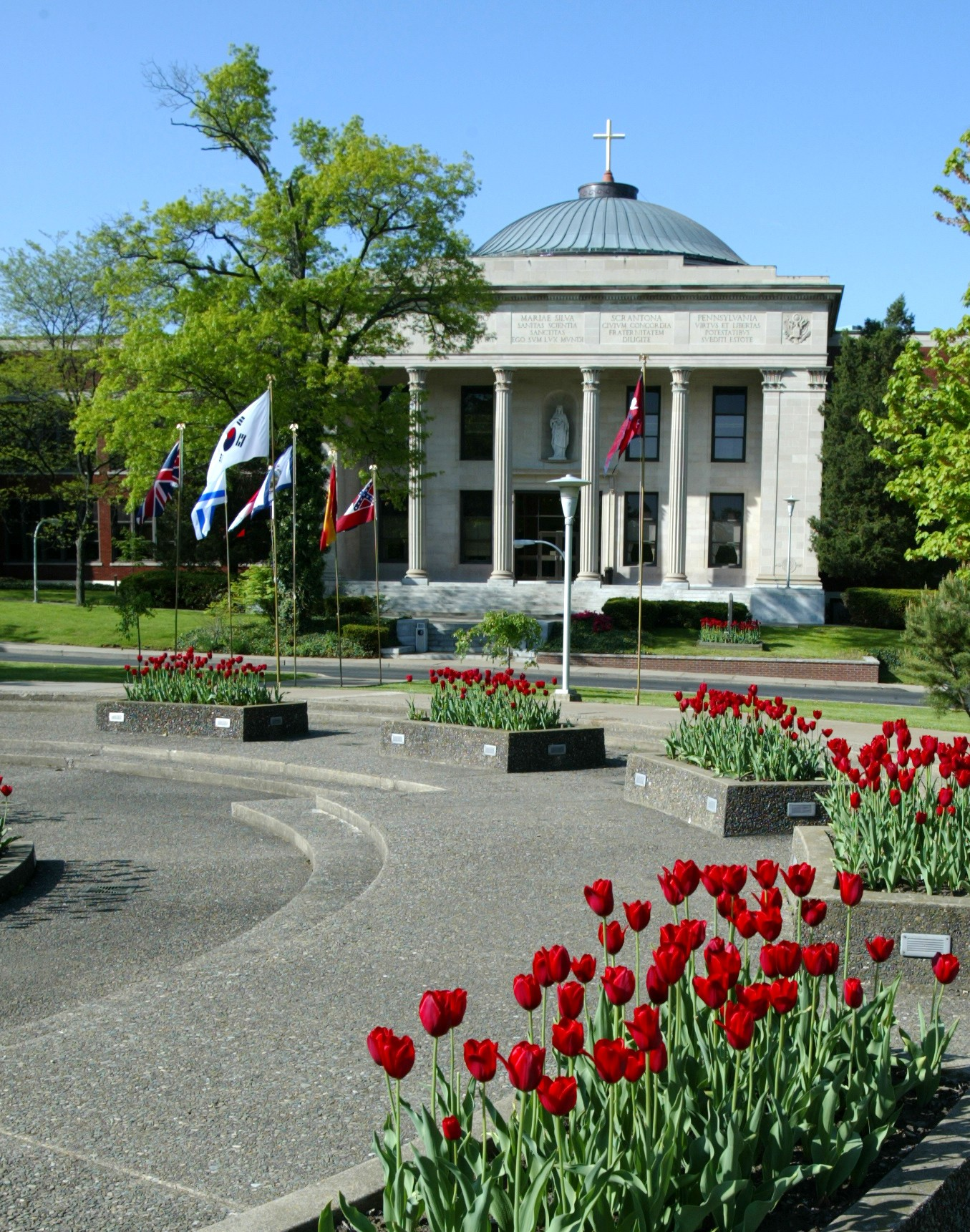 The Liberal Arts Center, completed in 1923, houses one of the region's most recognized architectural features-the dome of the Rotunda. Many university departments and offices are located in this building, and classroom wings extend from the grand Rotunda in the center.